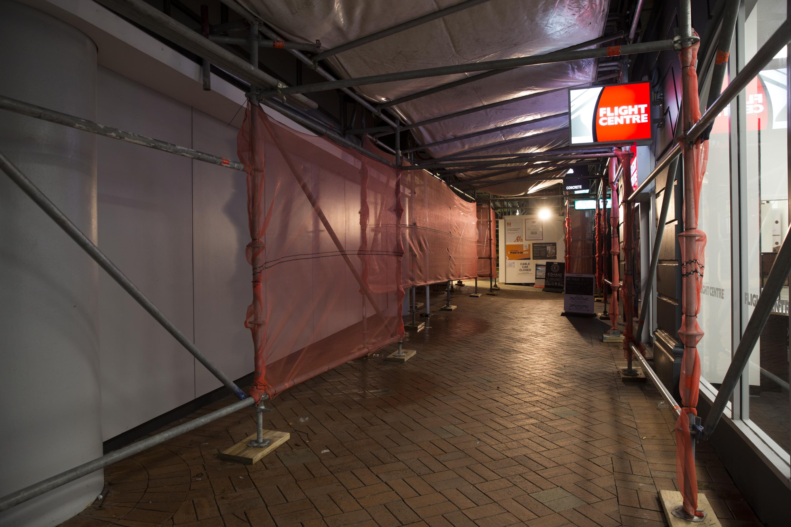 Scaffolding surrounding the Cable Car Lane whilst the new overhead canopy is being installed